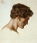 drawing of Charles Augustus Howell by Rossetti